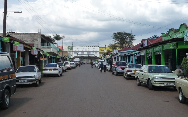 Kericho, Kenya